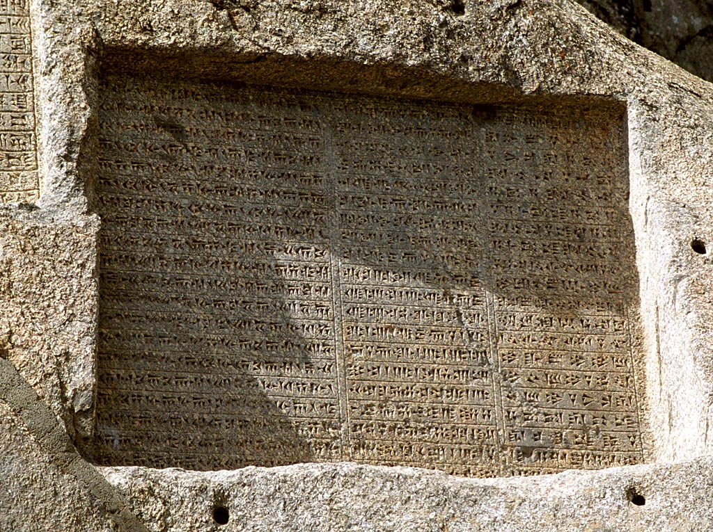 Xerxes I's trilingual inscription in old persian, elamite and babylonian, at Ganj Nameh, near Hamadan, Iran.